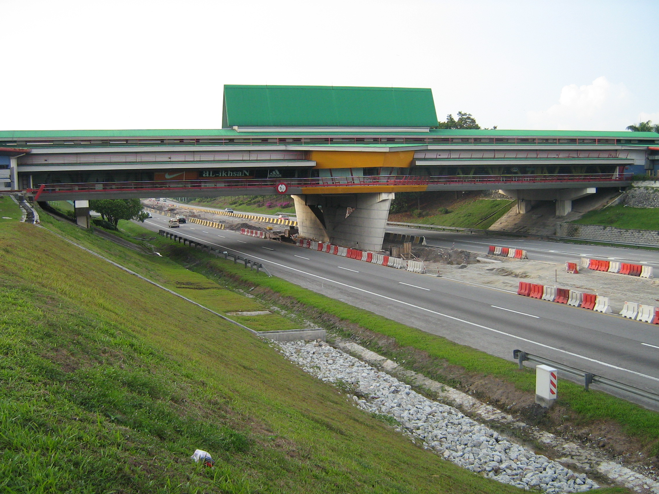 Sungai Buloh R&R with restaurants on bridge over the NS expressway, malaysia